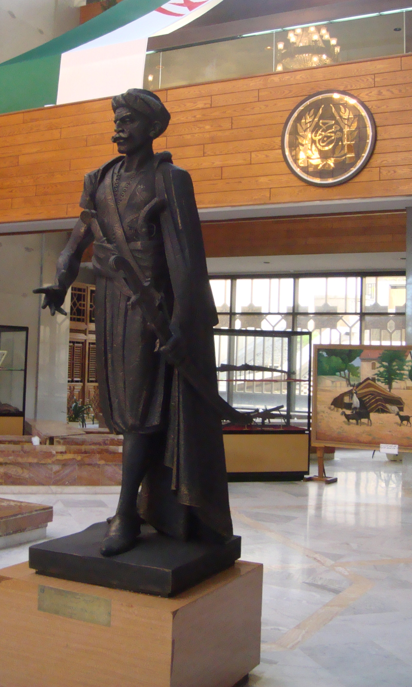 The Rais Hamidou: An Algerian Corsaire from the 18th century